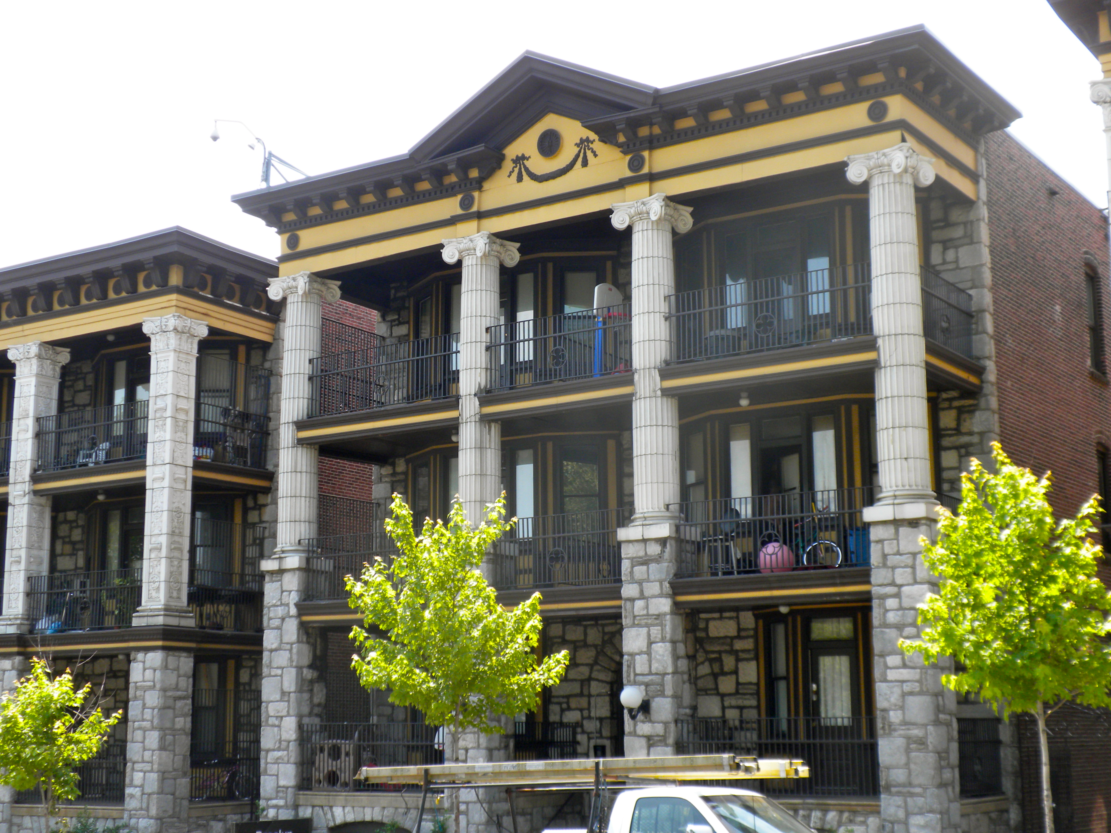 Breslyn Apartments on NRHP since November 14, 1982. At 4624–4642 Walnut Street, 201–213 South 47th Street in Spruce Hill neighborhood of West Philadelphia. These are on Walnut St.